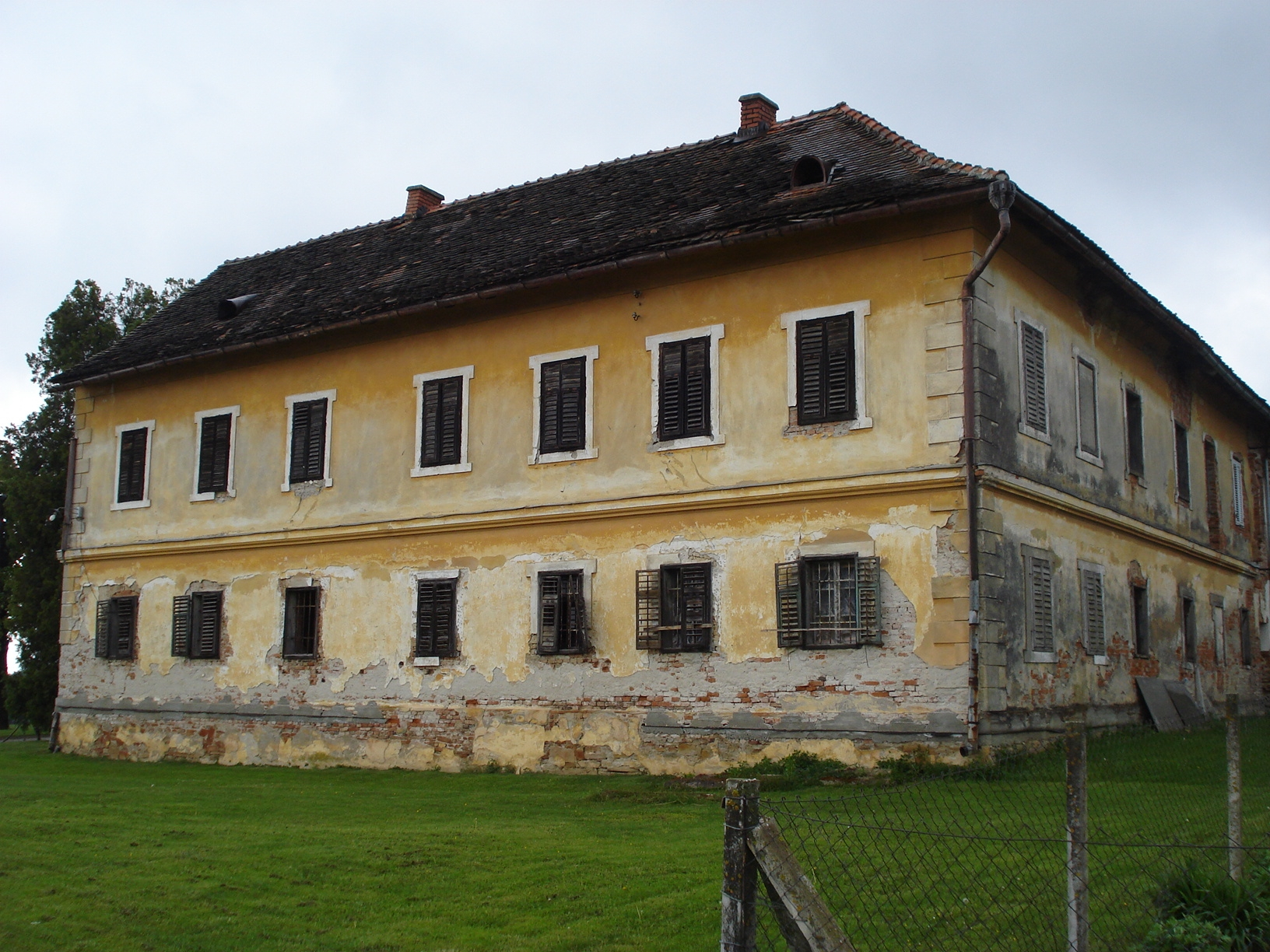 Zichy-Terbocz Manor in Železna Gora, Medjimurje County (Croatia) - southeast view